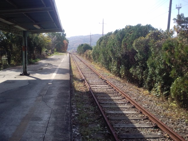 jangheung station flatform